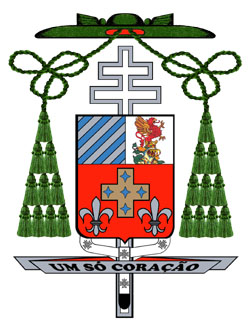 Episcopal blazon